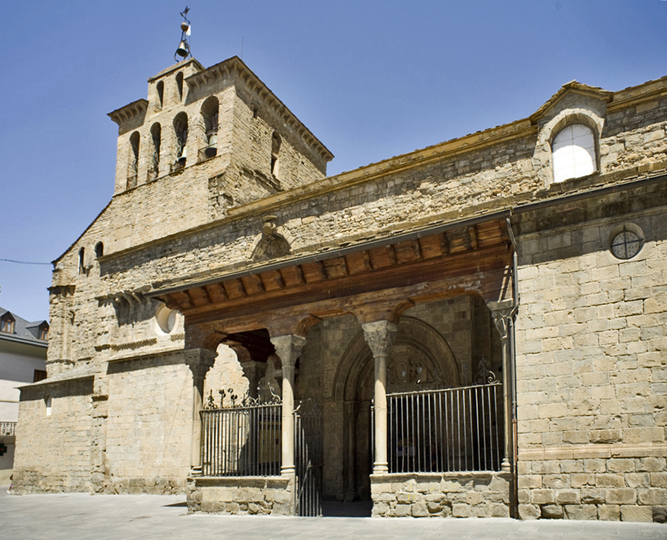 San Pedro's Cathedral, Jaca, Spain